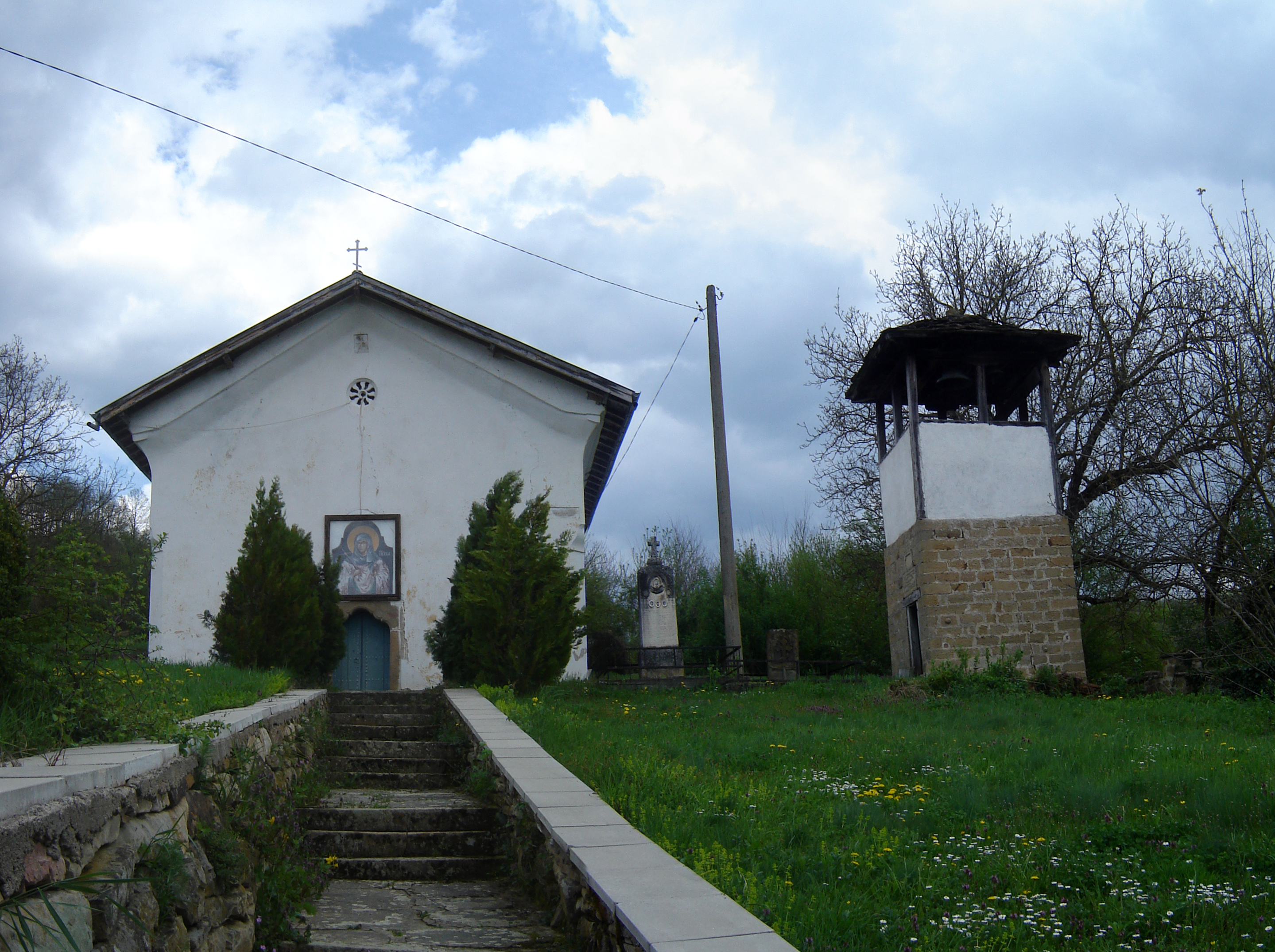 The Church of Saint Petka in Bozhenitsa, Bulgaria and the bell tower.